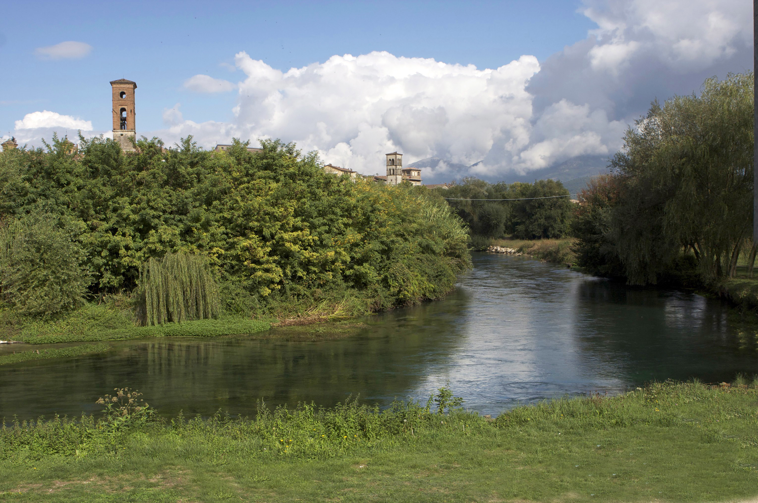 Velino River in Rieti (Lazio, Italy)